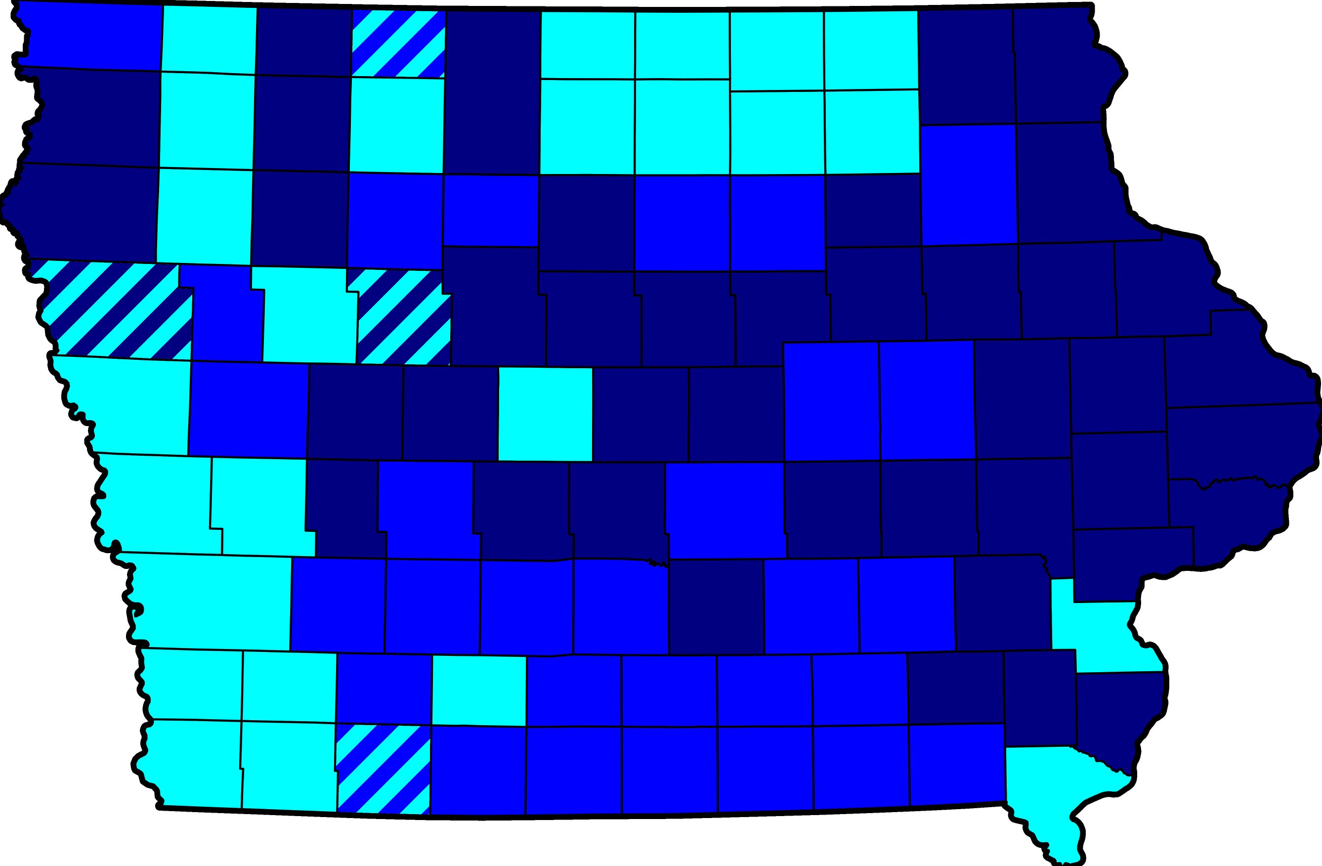 A map of the counties in Iowa showing the results of the January 3rd, 2008 Democratic Caucuses as listed by CNN at